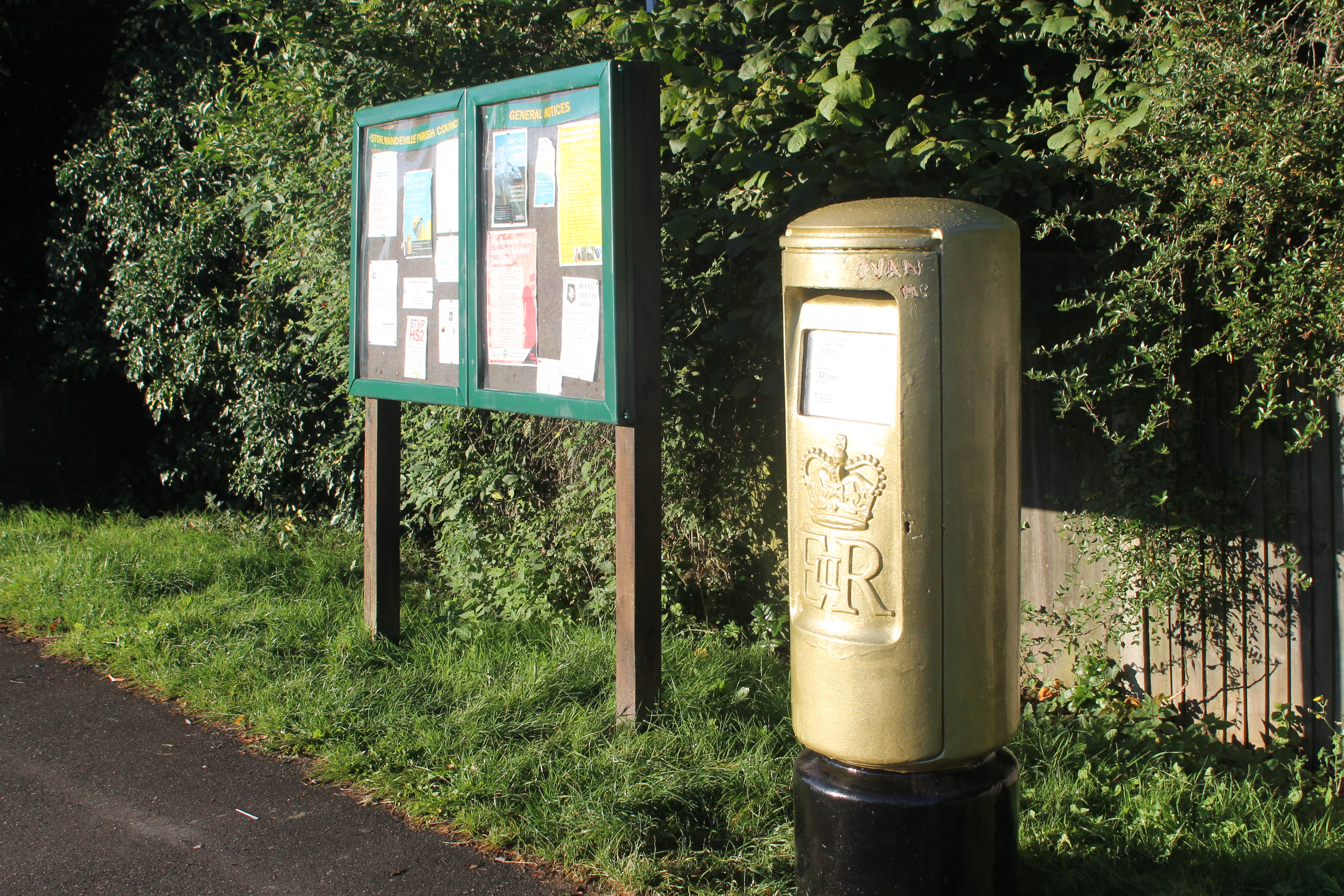 The Type-K EIIR postbox (No. HP21 299) in Lower Road, near the entrance to Stoke Mandeville Hospital Aylesbury, Buckinghamshire. It was painted gold on 28 August 2012 by Baroness Tanni Grey-Thompson, to launch the Paralympic portion of the Royal Mail's gold postbox scheme, where postboxes were painted gold to mark each gold medal at the London 2012 Olympian/Paralympic games. The hospital was chosen as the launch site due to its role as the spiritual home of the Paralympic Games.